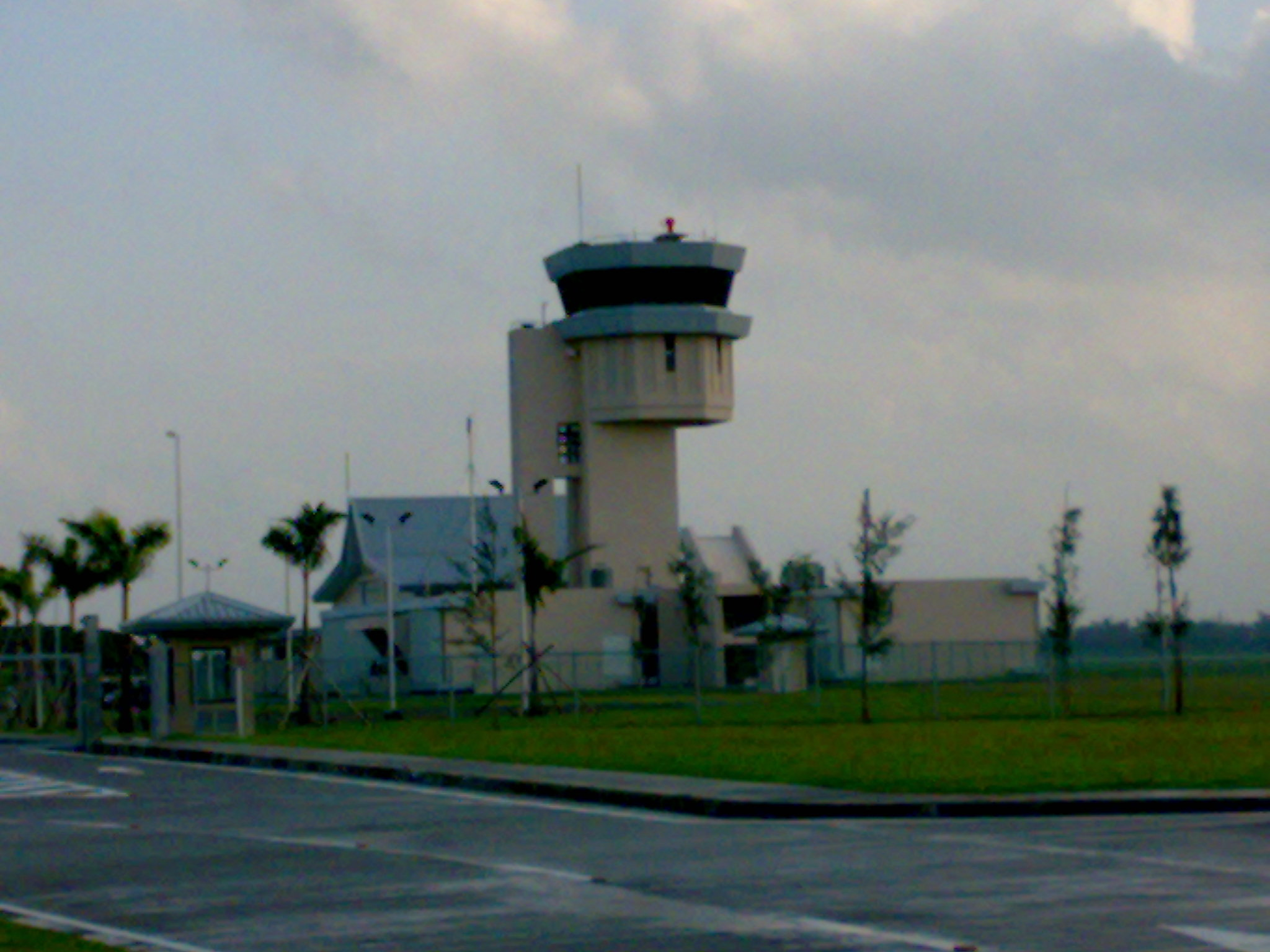 Bacolod-Silay Airport Control Tower